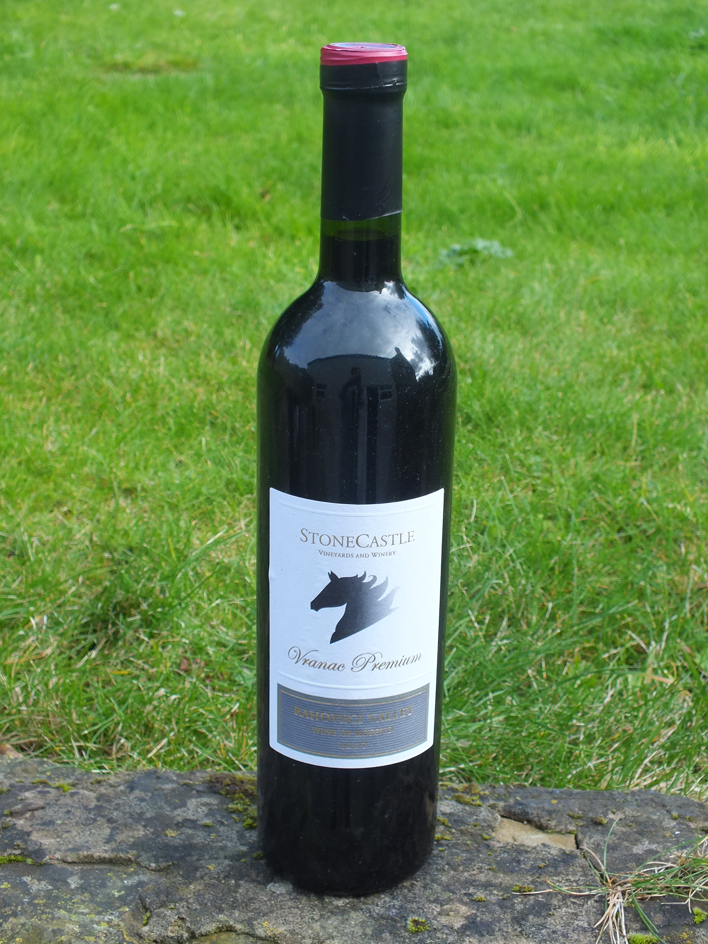 Bottle of wine from the Rahoveci valley in Kosovo; English branding.